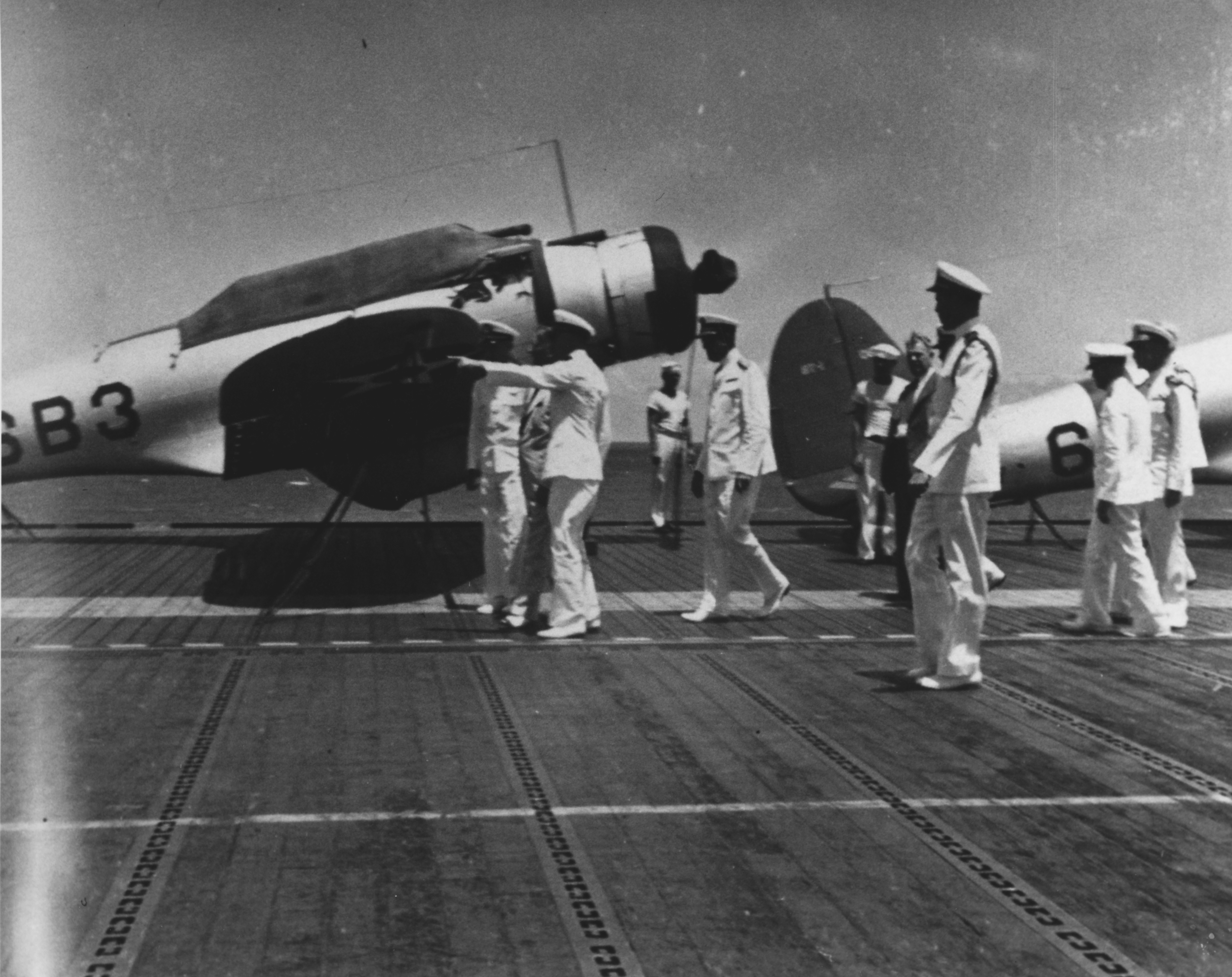 View taken on the flight deck of the aircraft carrier USS Enterprise (CV-6) showing U.S. Secretary of the Navy Frank Knox inspecting aircraft (Northrop BT-1s). Knox is followed by Admiral James O. Richardson, USN (center). Commander Milton L. Deyo, USN (Aide to SecNav), also is visible, at far right.